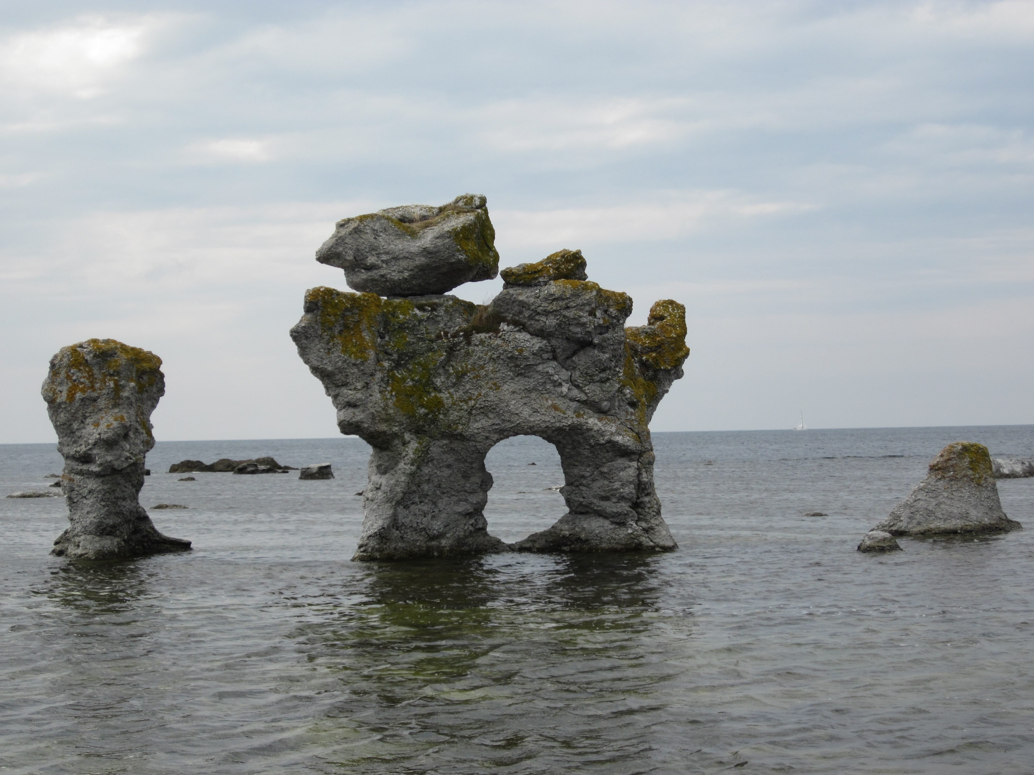 The rauk "Hunden" (The Dog), also called "Kaffepannan" (The coffee kettle) at Gamle hamn om the Swedish island of Fårö's west coast.